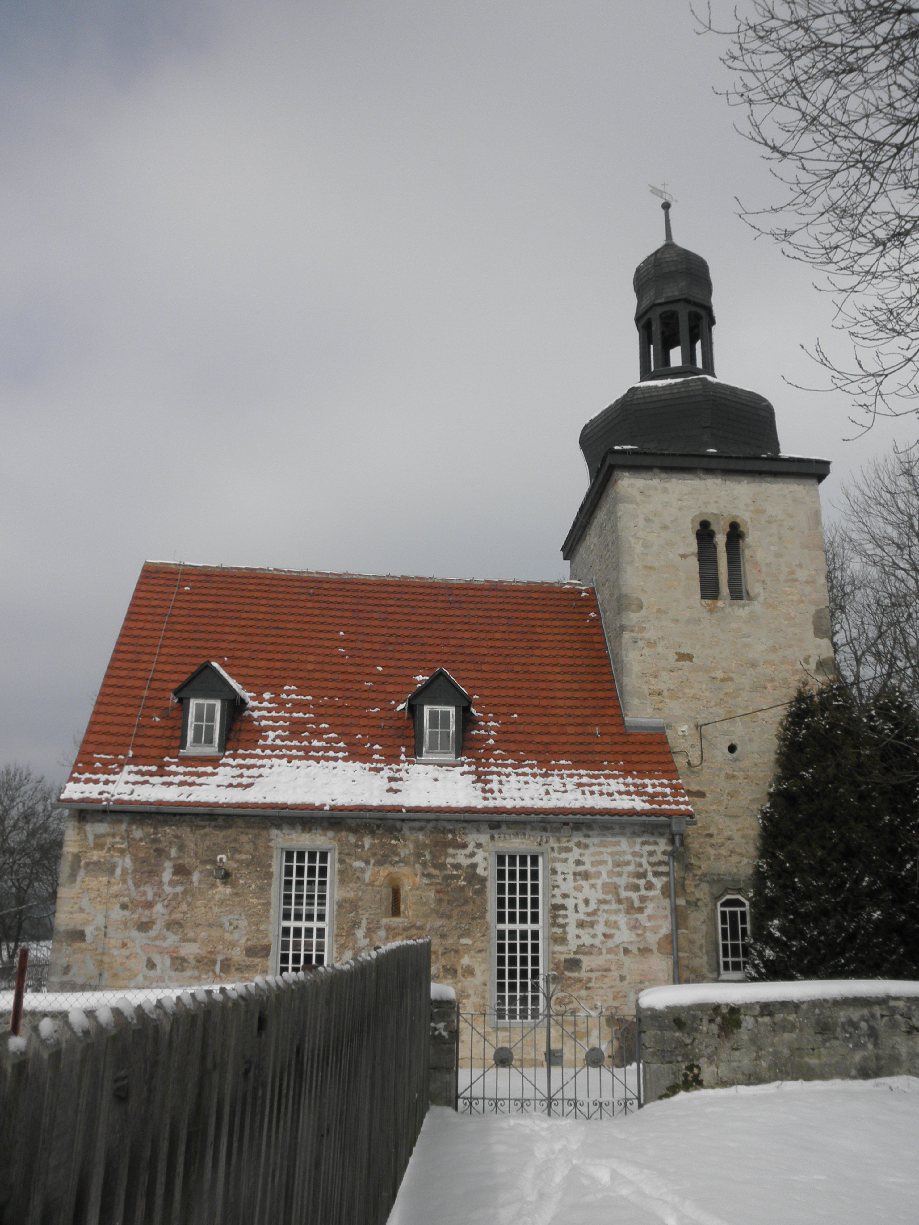 Church in Rettwitz in Thuringia